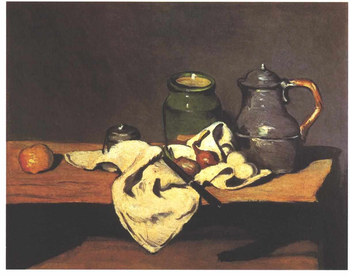 Still life with green jug and tin can